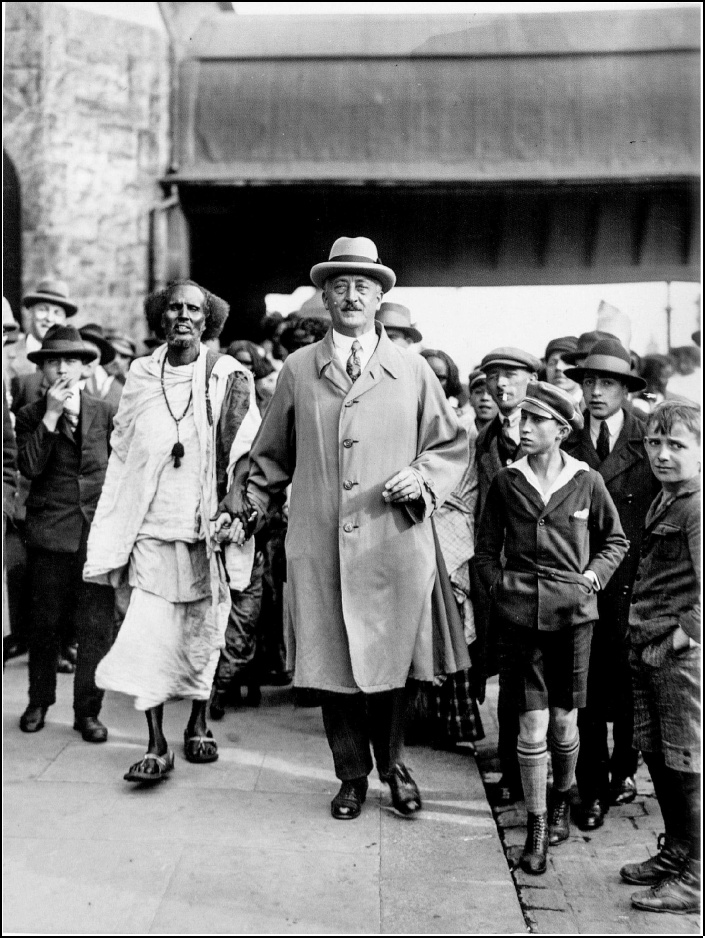 Hirsi Ige and (probably) Heinrich Hagenbeck, Hamburg in the 1920s